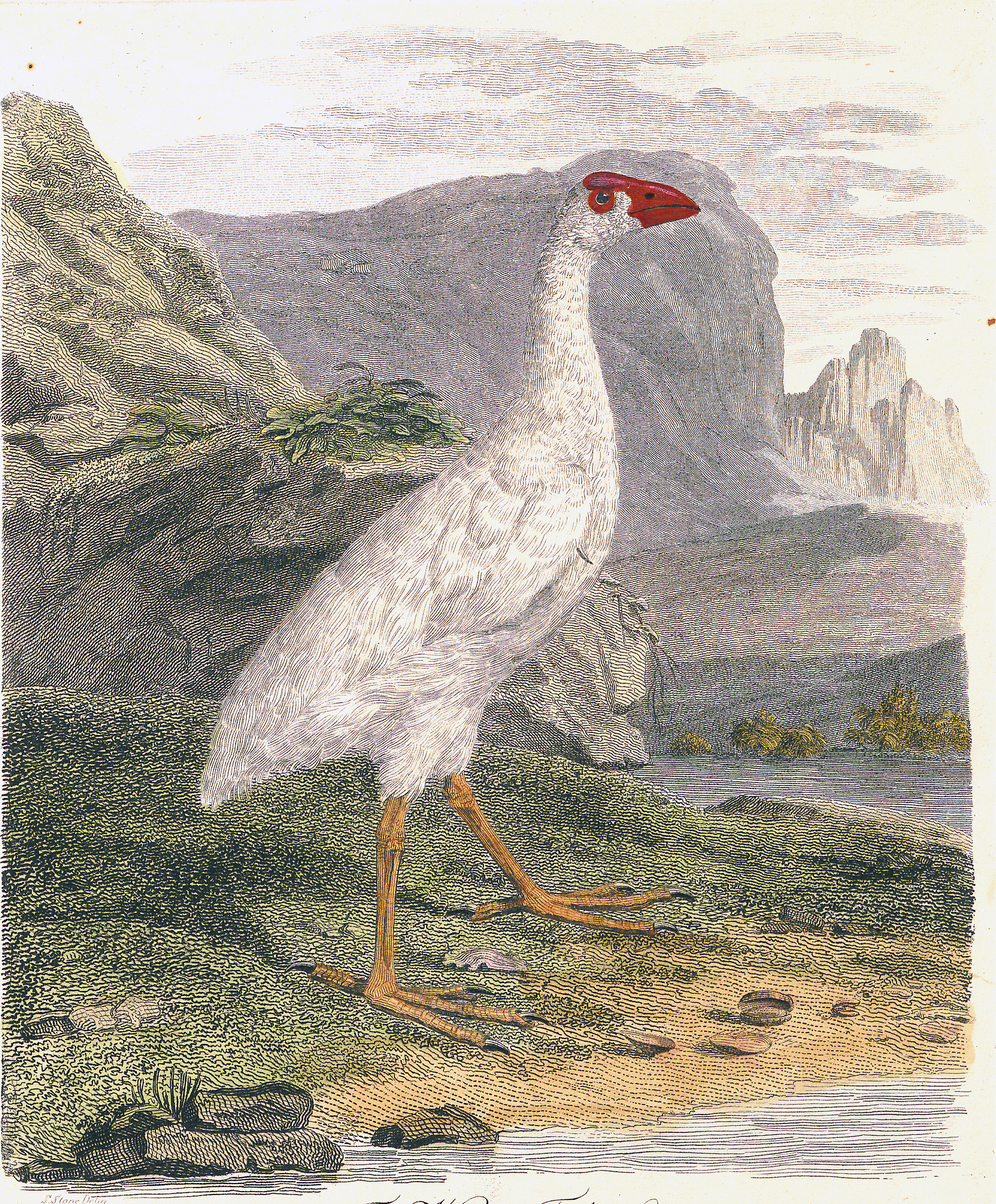 Lord Howe Purpurhuhn (Porphyrio albus) from Journal of a Voyage to New South Wales. 1790